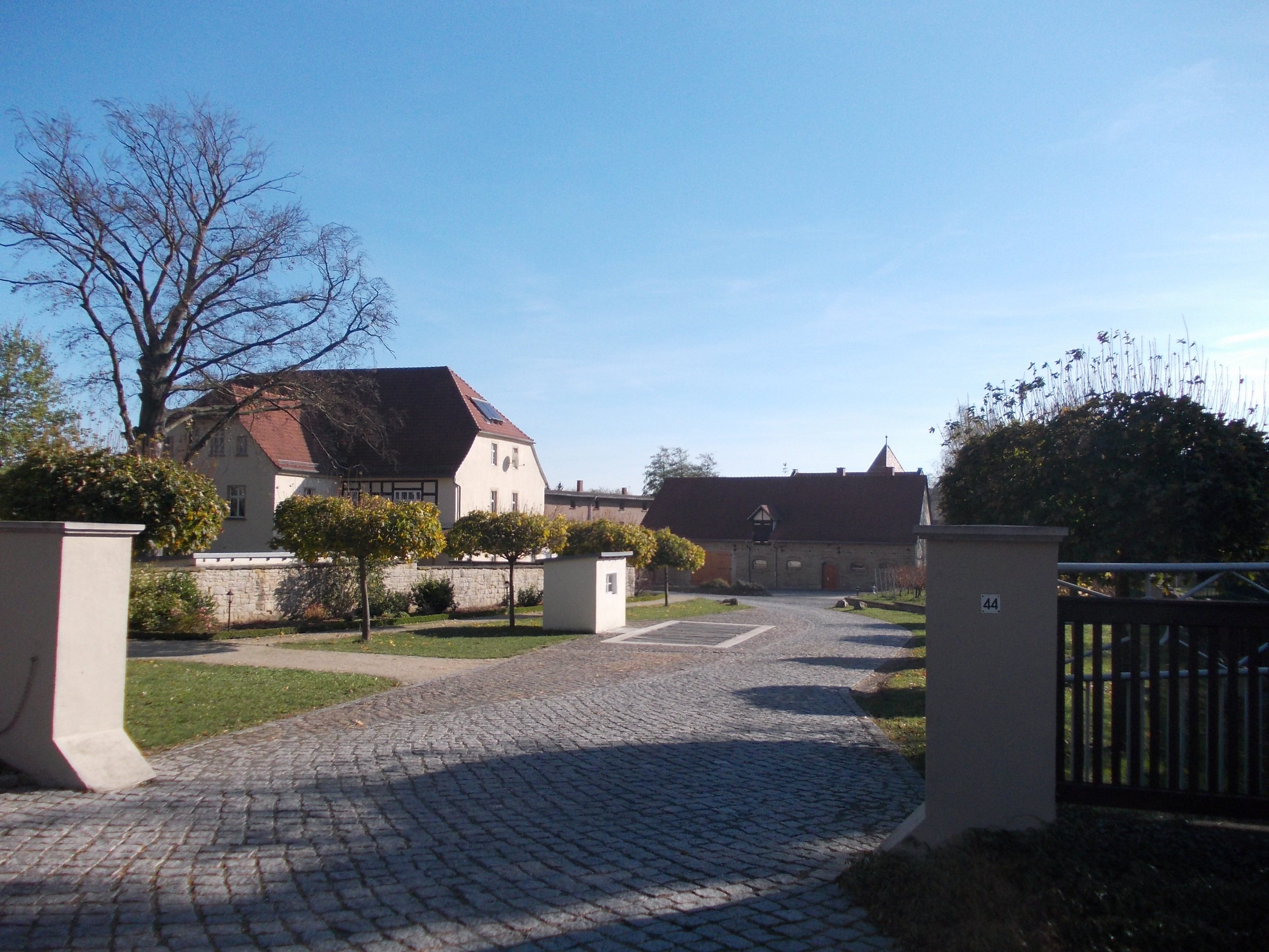 Salsitz estate (winery), Kretzschau (district: Burgenlandkreis, Saxony-Anhalt)